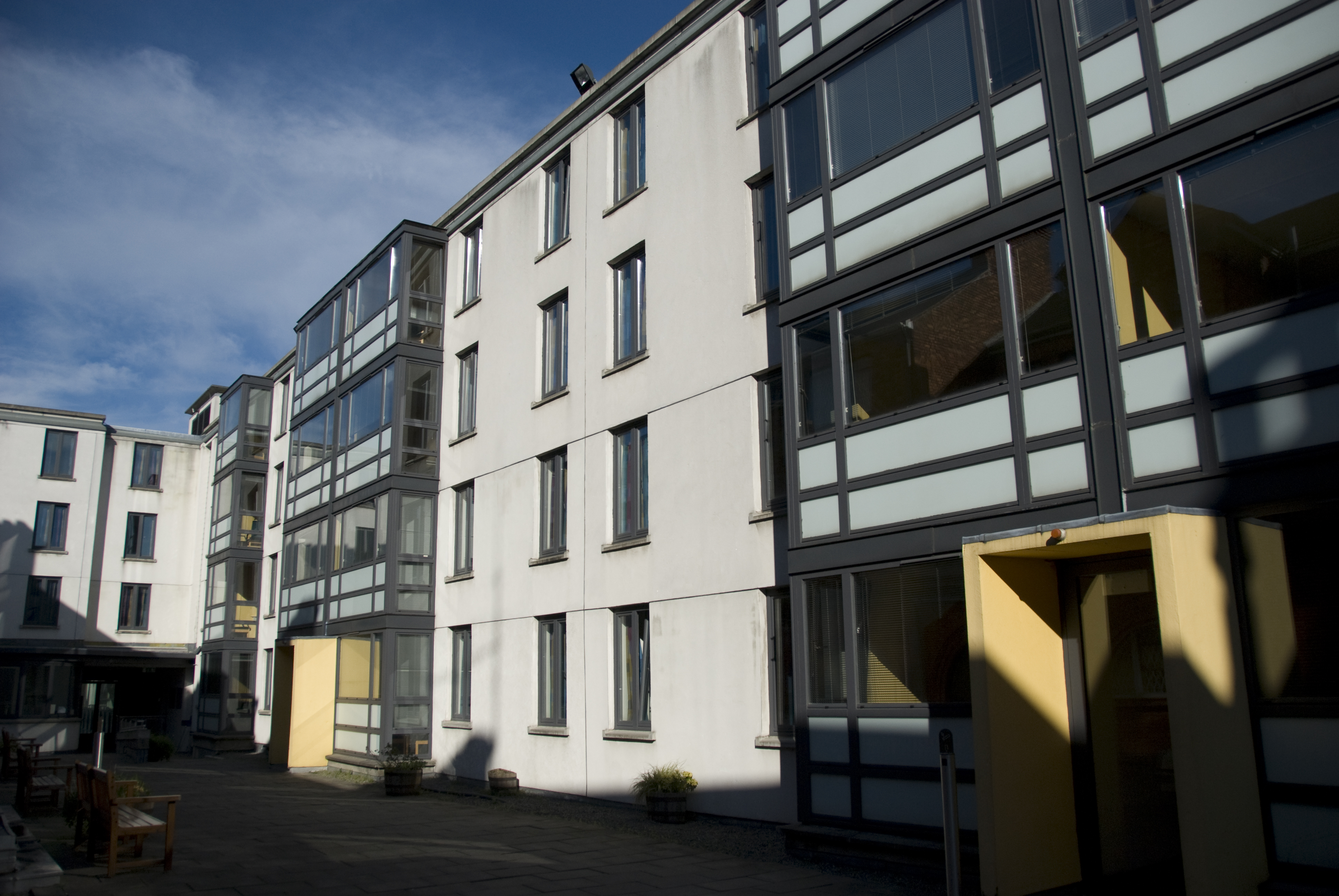 Trinity College, Dublin, Ireland on-campus residences in Goldsmith Hall.